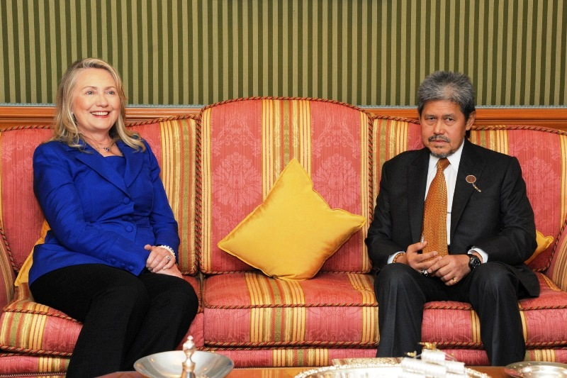 U.S. Secretary of State Hillary Rodham Clinton meets with Brunei's Foreign Minister Prince Mohamed Bolkiah in Bandar Seri Begawan, Brunei, September 7, 2012. [State Department photo/ Public Domain]